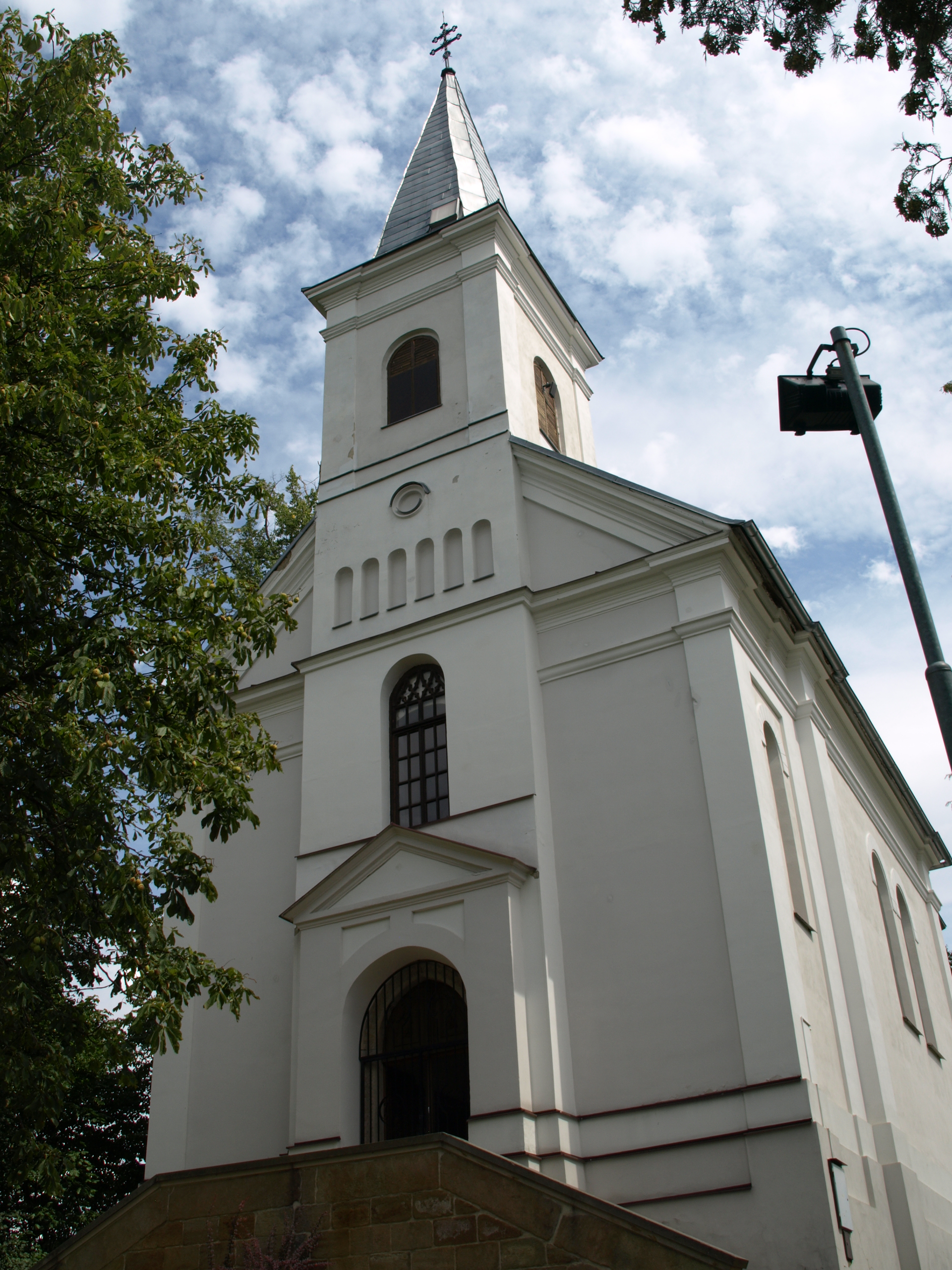 Church St. Anna in Albrechtice